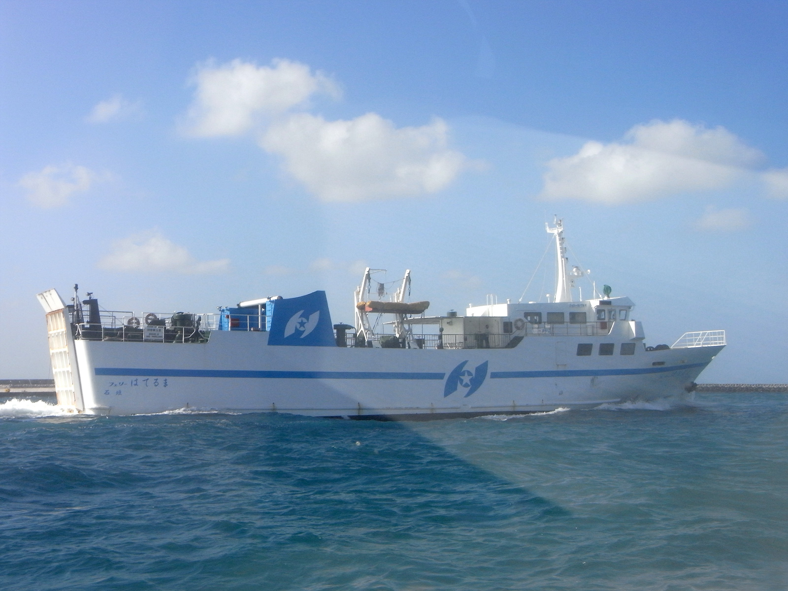 Ferry Hateruma near Ishigaki Port, Ishigaki Island, Okinawa, Japan